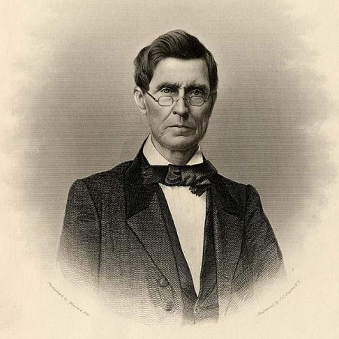 Augustus Baldwin Longstreet lawyer, minister, educator, and humorist, known for his book Georgia Scenes, engraved by J. S. Harley, New York, N.Y., published in Judge Longstreet. A life sketch by Fitzgerald, O. P. (Oscar Penn), 1829-1911. Nashville, Tenn., Printed for the author by the Publishing house of the Methodist Episcopal church, South, 1891